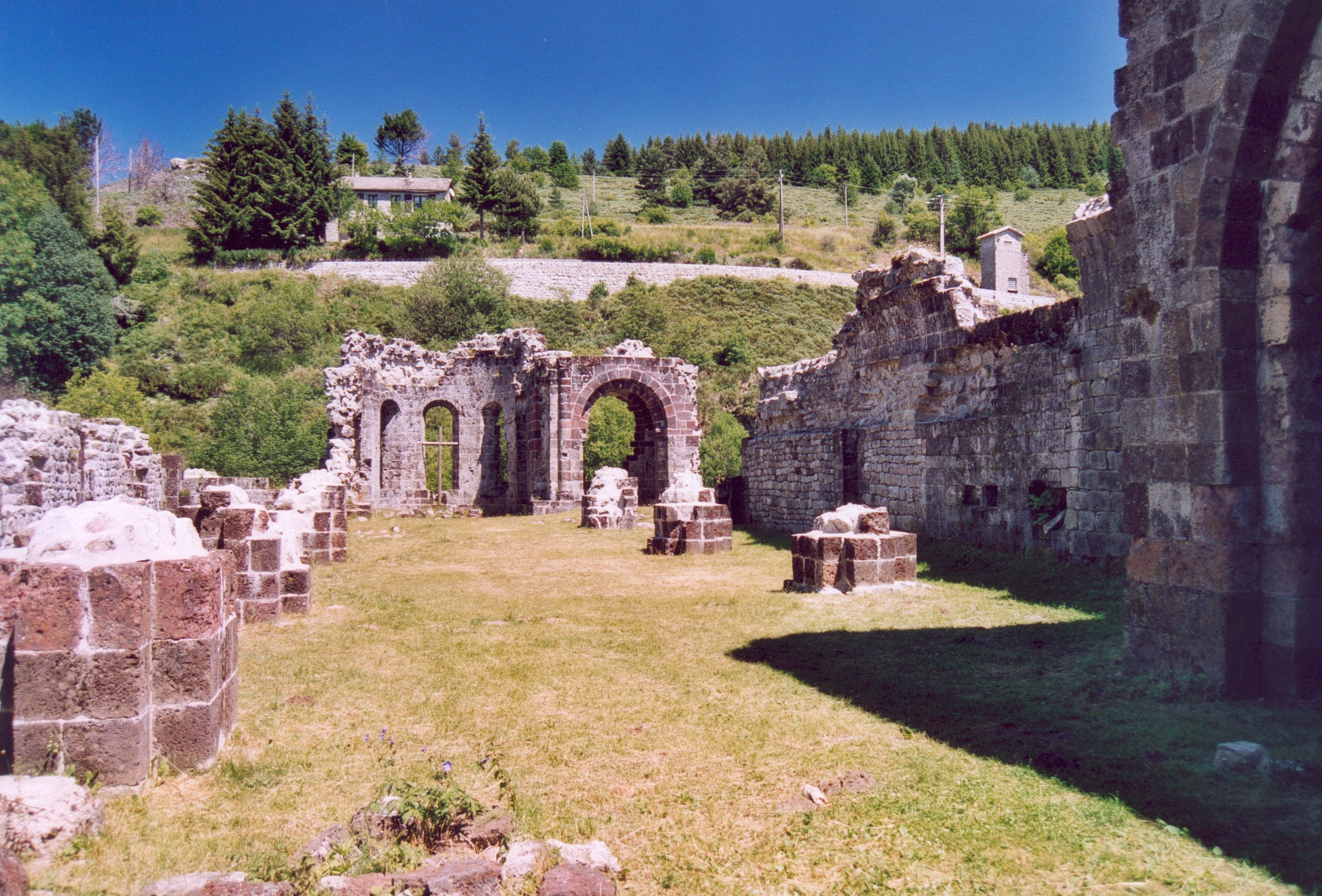 France Ardèche Mazan-l'Abbaye Photographie prise par GIRAUD Patrick